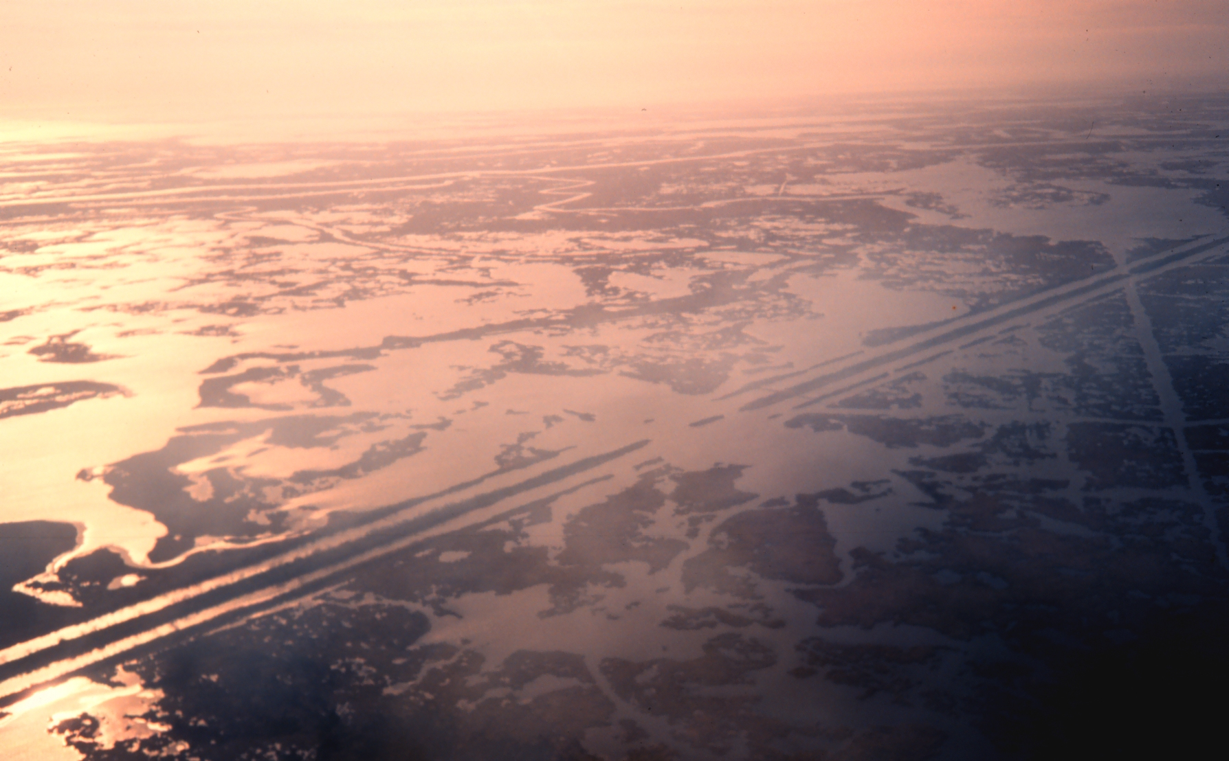 Viewing man-made canals in the marsh in Louisiana, Barataria Basin[1]